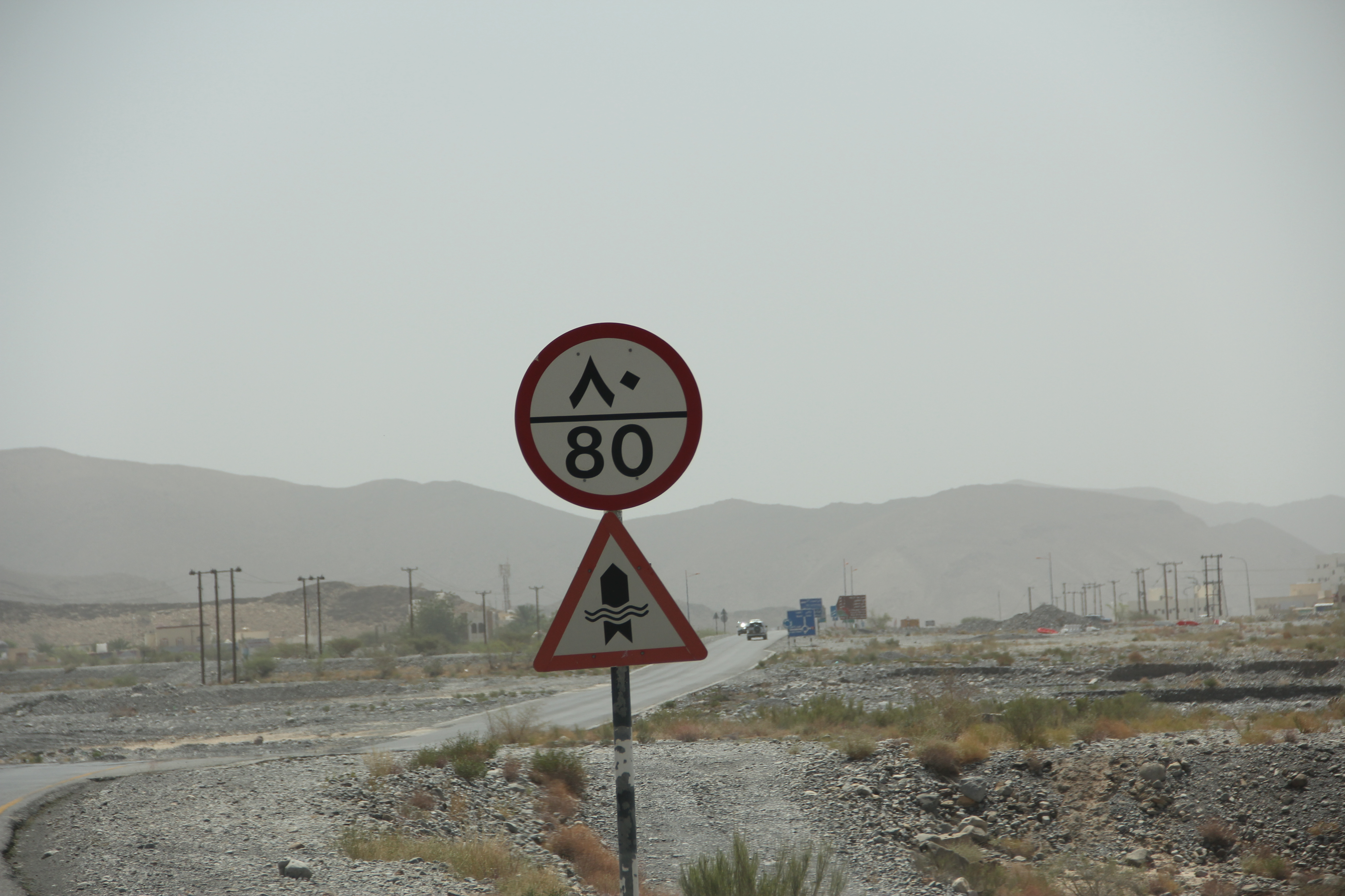 Geschwindigkeit